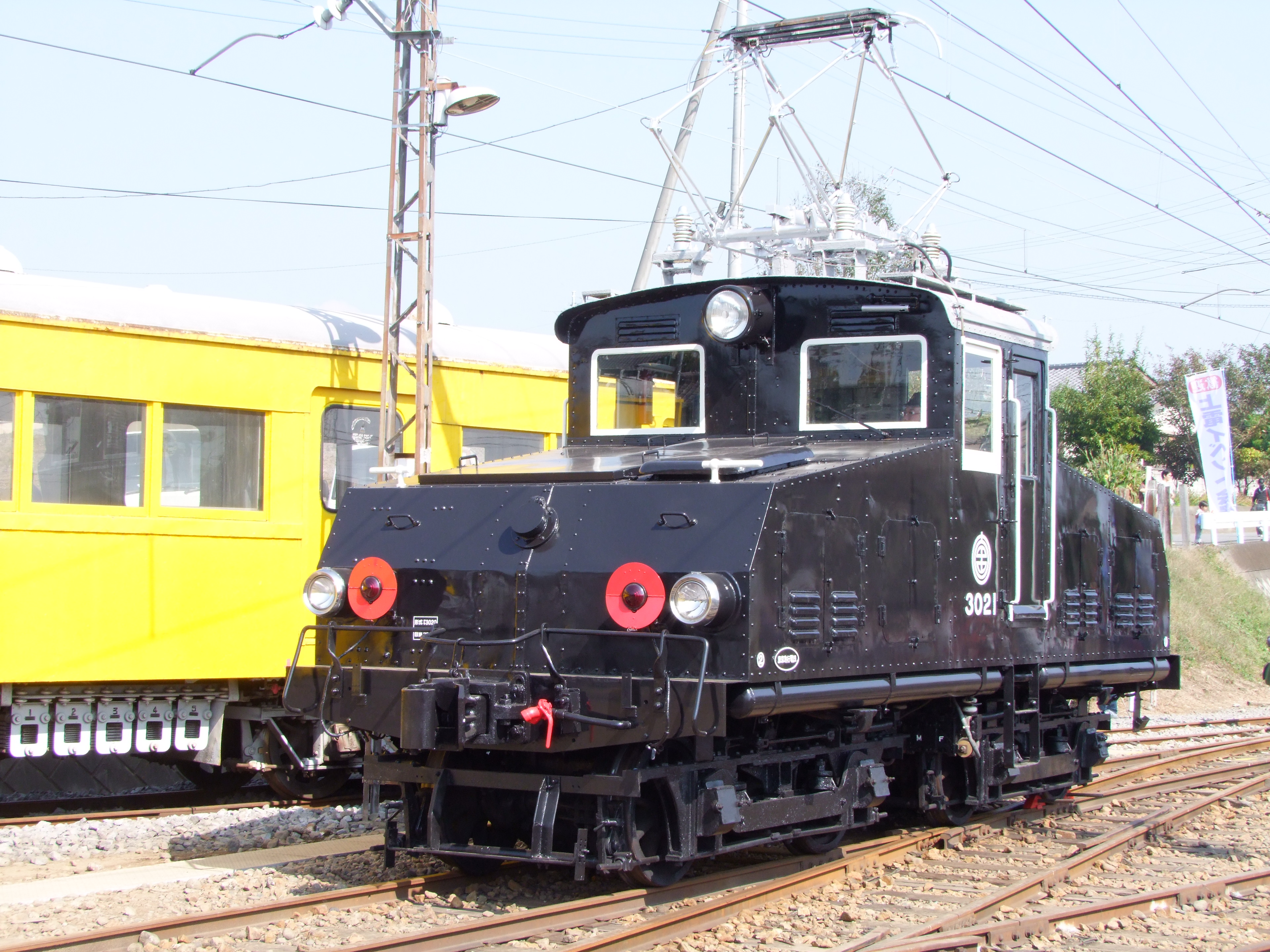 Tokyu Deki3021(Type Deki3020) electric locomotive. In 2009 transferred to Jomo Electric Railroad from Tokyu Corporation(Tokyo Kyuko Electric Railway). This picture was taken 18 Oct. at Ogo Car Base, event of Jomo.